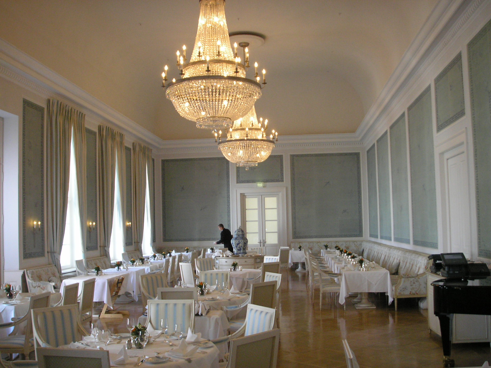 Image of the main dining hall in the Kurhaus, Heiligendamm.